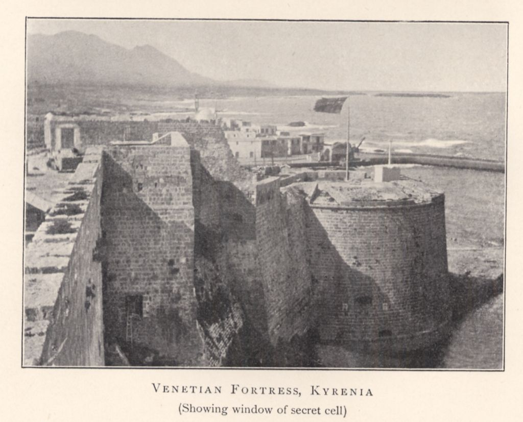 Fortress overlooking water. Black-and-white photograph.